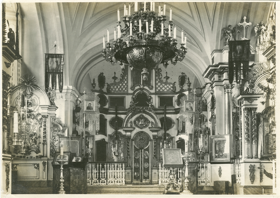 Kolpino (Russia)